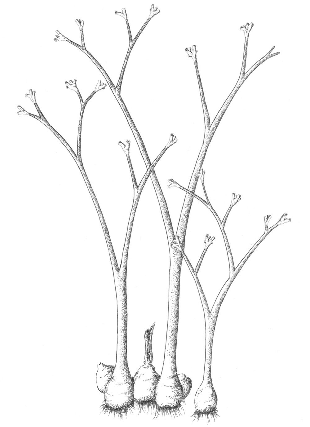 Artistic reconstruction of the plant Horneophyton lignieri from fossils described from Rhynie Chert paleontological site. It has been represented with an approximate height of 12 centimeters and a stem width of about 2 millimeters. The bulbs have a variable width about 4 millimeters. The terminal sporangia are shown following the descriptions and avoiding the simplification shown in other artworks, so these sporangia appear here with a smaller size and greater complexity.